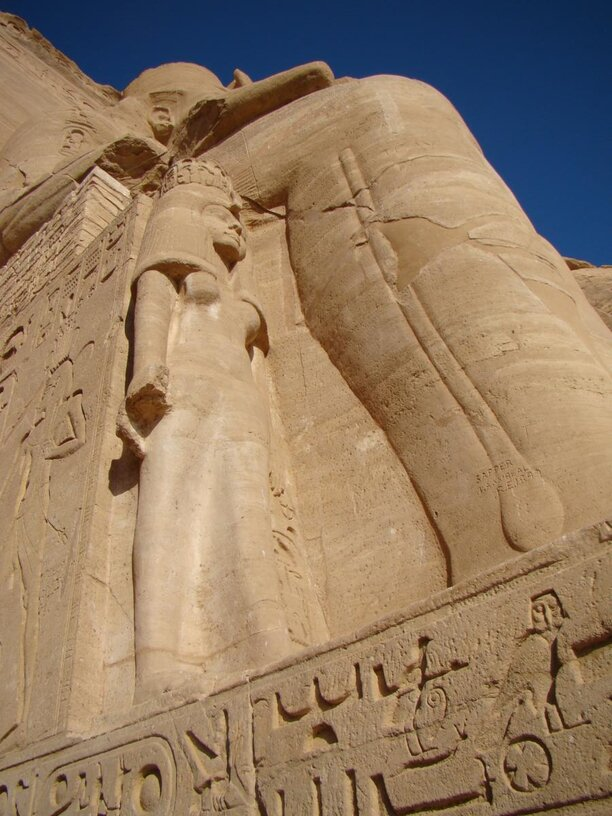 The qeen near the king